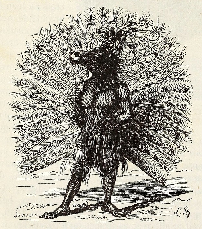 Image of Adramelech from Collin de Plancy's Dictionnaire Infernal.